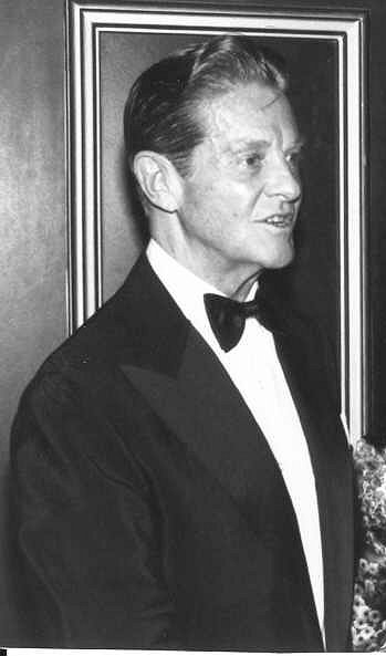 Photo of Robert "Bob" Cummings